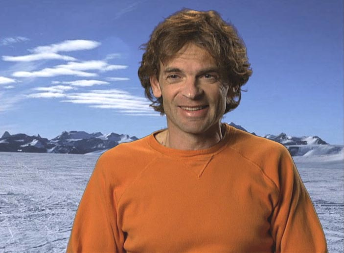 Eric Rignot Public domain image from NASA [1]